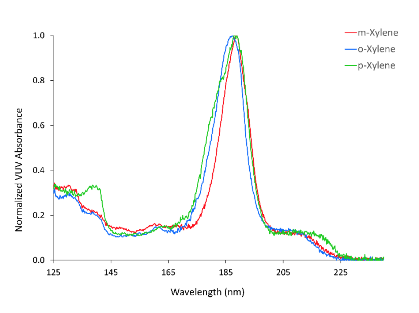 The distinct VUV spectra of m-, p-, and o-xylene. The compounds differ by only the positions of two methyl groups on a benzene ring, and are virtually impossible to distinguish by gas chromatography – mass spectrometry (GC-MS).